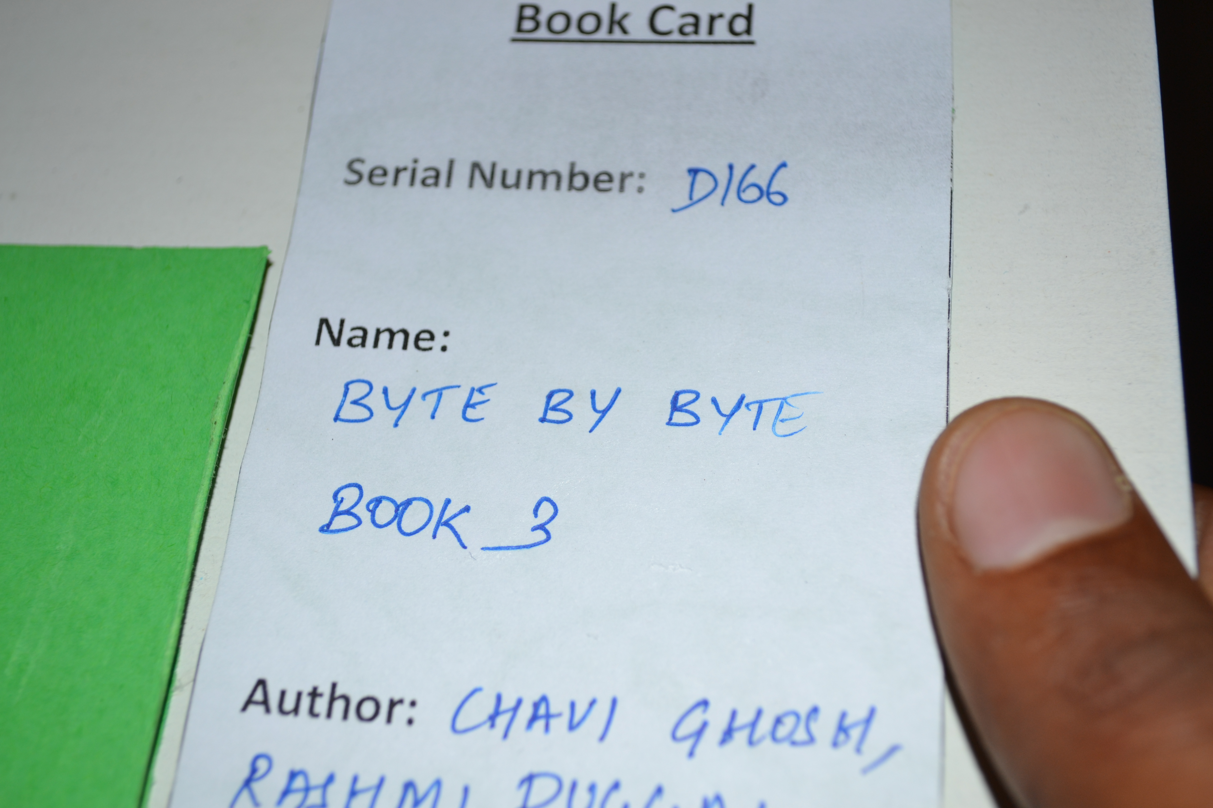 Mobile Library 2012 program by Singing Skylarks